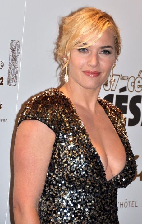 Kate Winslet in Paris at the César Awards ceremony